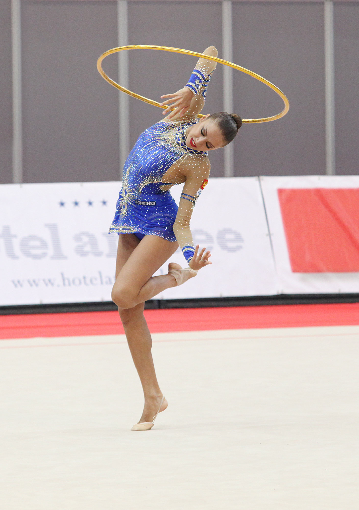 Grand Prix Rhythmic Gymnastics in Austria (Hard) 2012. Jewgenija Kanajewa, Olympic individual gold medalist.